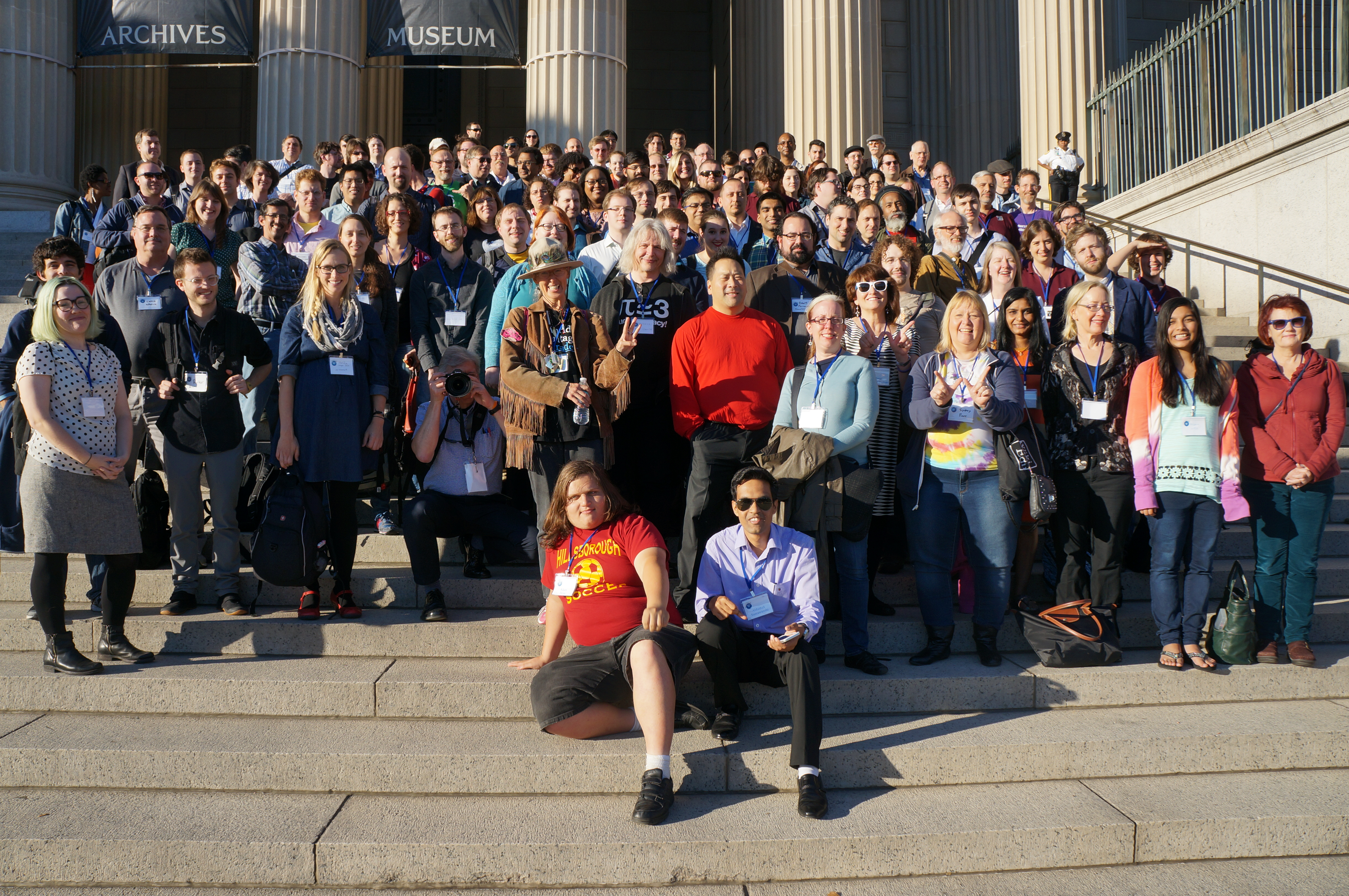 WikiConference USA 2015 Group Photo